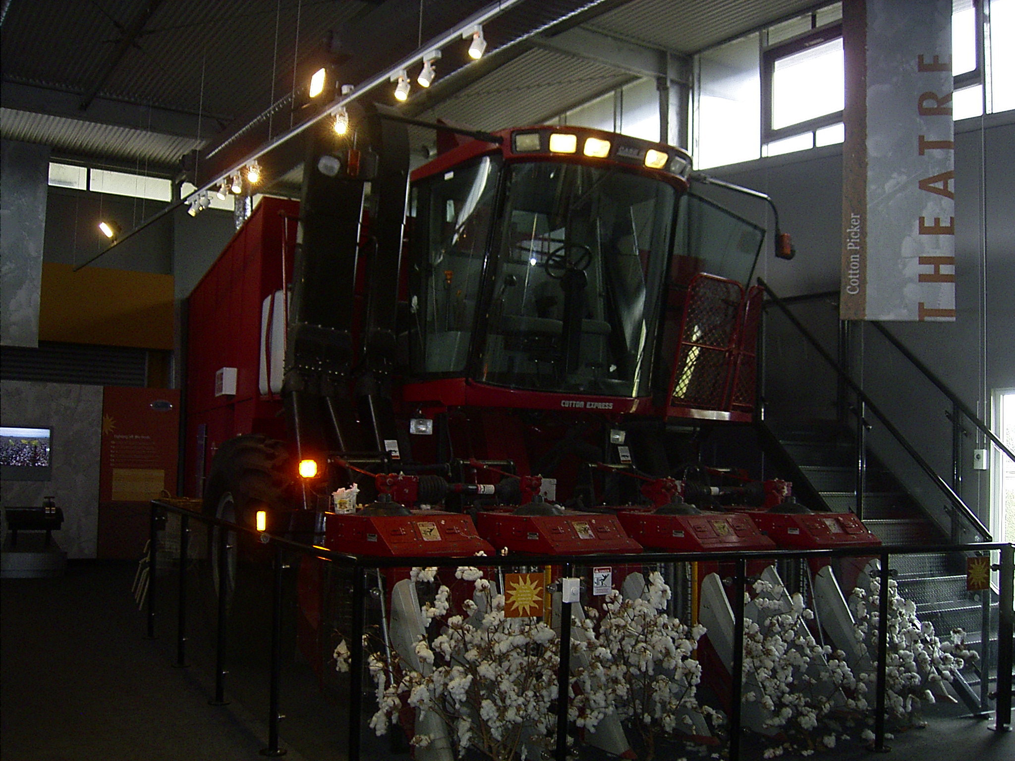 A Case IH Cotton Express cotton picker (harvester) located in the Australian Cotton Centre in Narrabri, New South Wales.